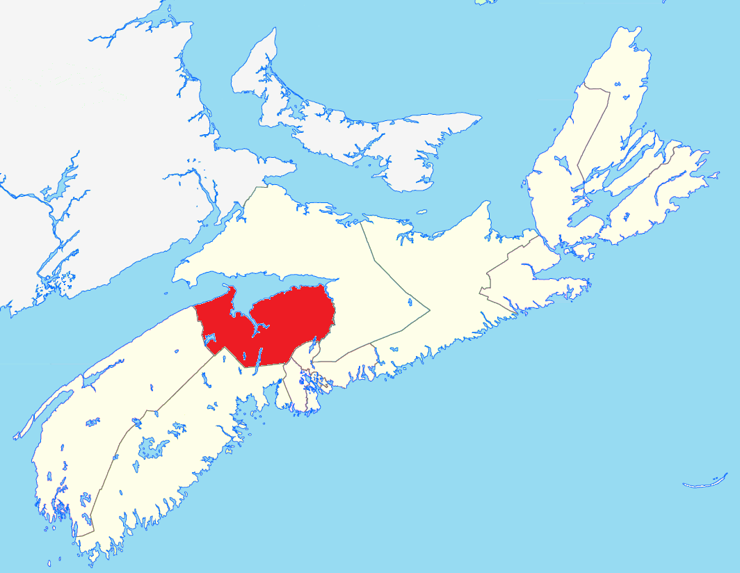 Map of Kings Hants